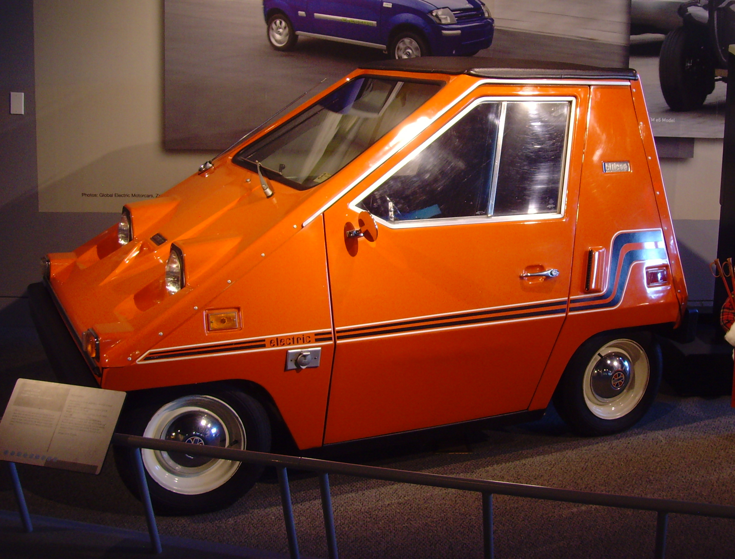 Late 6HP CitiCar electric car at the America on Wheels Auto Museum